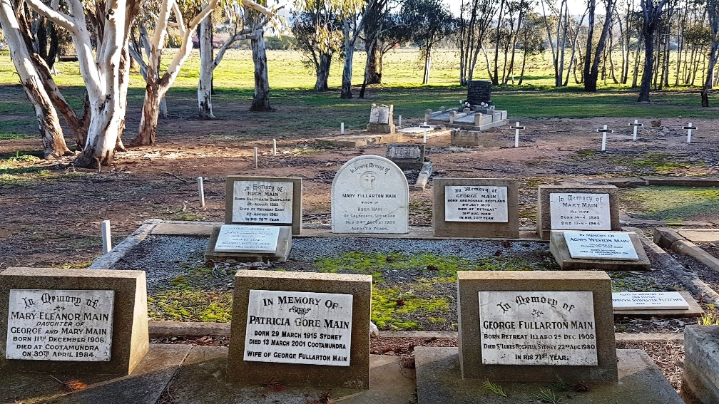 A group of eight headstones in rural surroundings on outskirts of cemetery, Cootamundra, New South Wales. All commemorate members of the Main family from nearby Illabo.